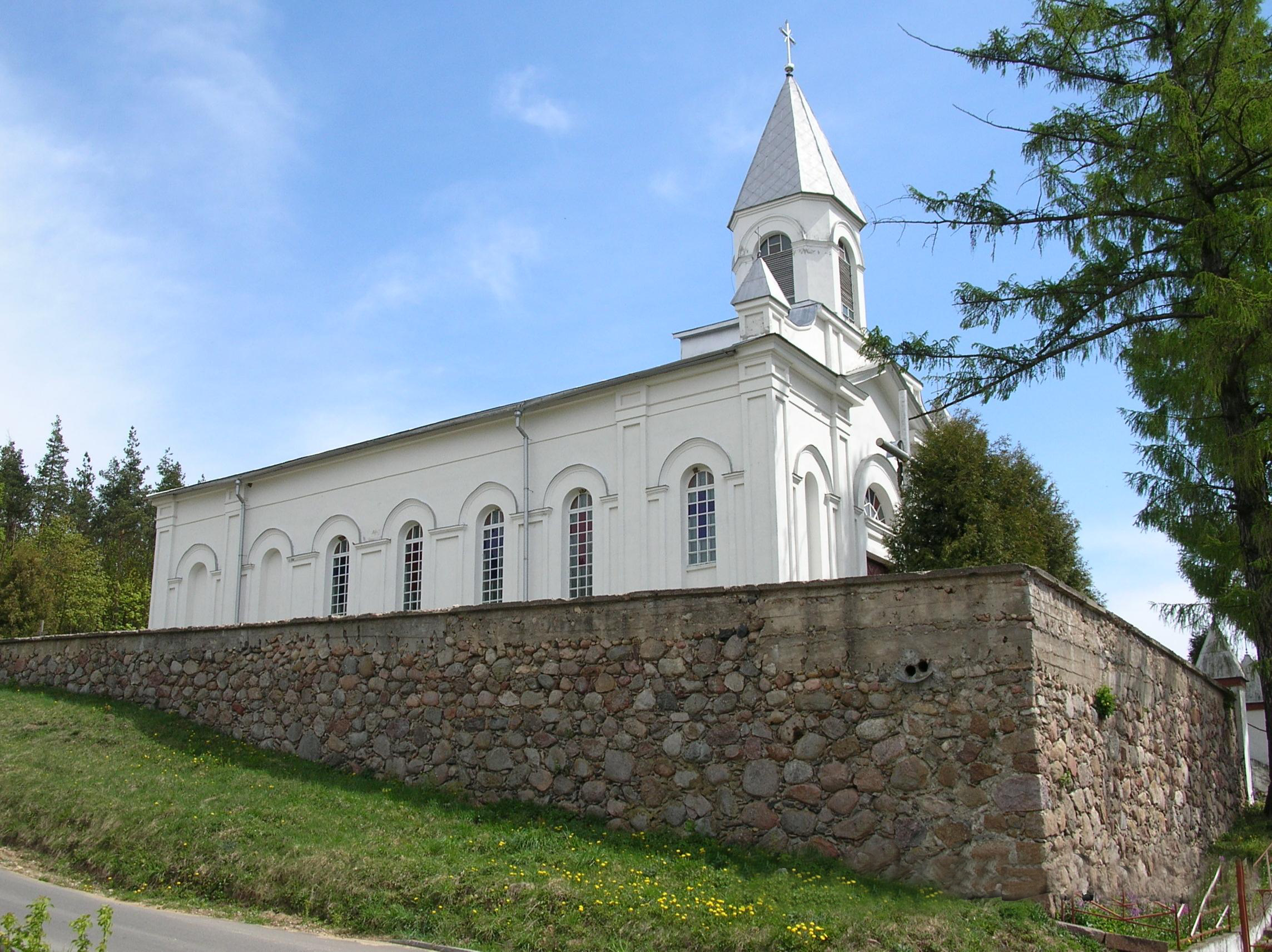 Church in Brzostowica Mała.